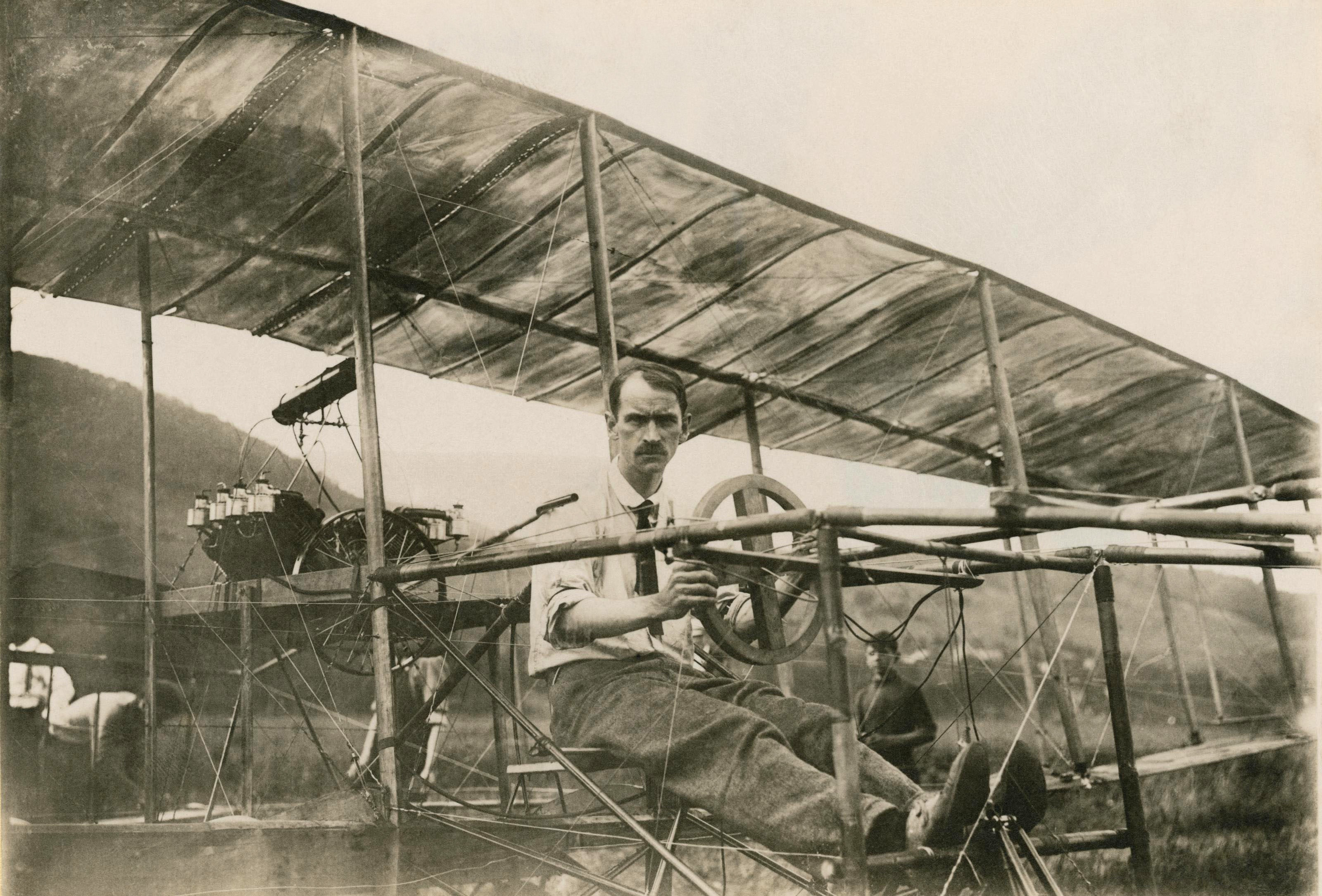 Glenn Curtiss in His Bi-Plane, July 4, 1908, gelatin silver print